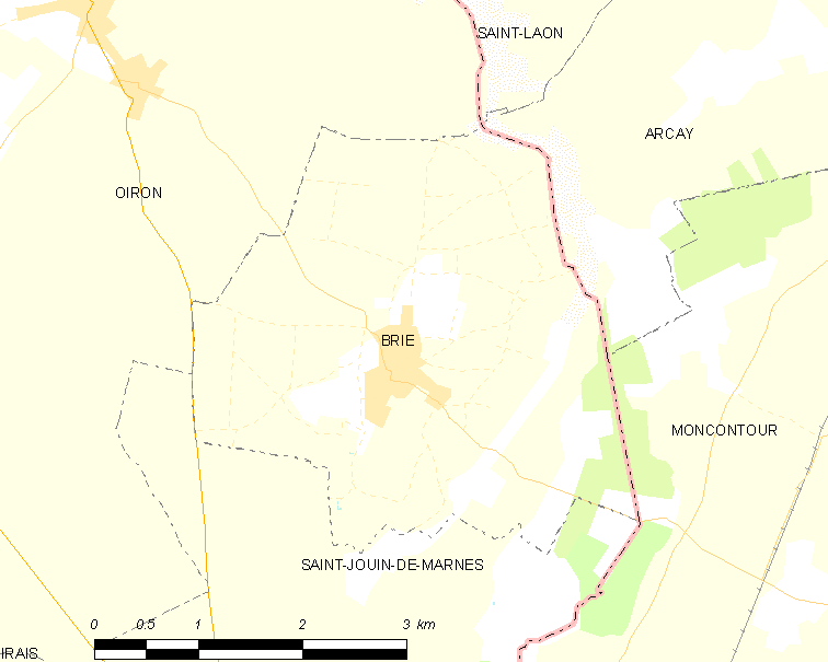 Map of French municipality Brie